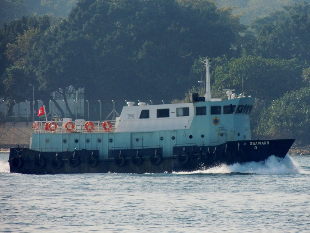 HKCSD - Seaward